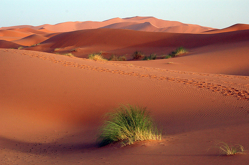 According to Wikipedia, an erg is a "large, relatively flat area of desert covered with wind-swept sand with little to no vegetation cover. Strictly speaking, an erg is defined to be a desert area that contains more than 125 square kilometers of eolian sand and where sand covers more than 20% of the surface... The largest hot desert in the world, the Sahara, is 9,000,000km² and contains several ergs, such as Erg Chech in Algeria. Approximately 85% of all the Earth's mobile sand is found in ergs that are larger than 32,000 km². Ergs are also found on other celestial bodies, such as Venus and Saturn's moon Titan." So it's not entirely wrong to view these landscapes as otherworldly...